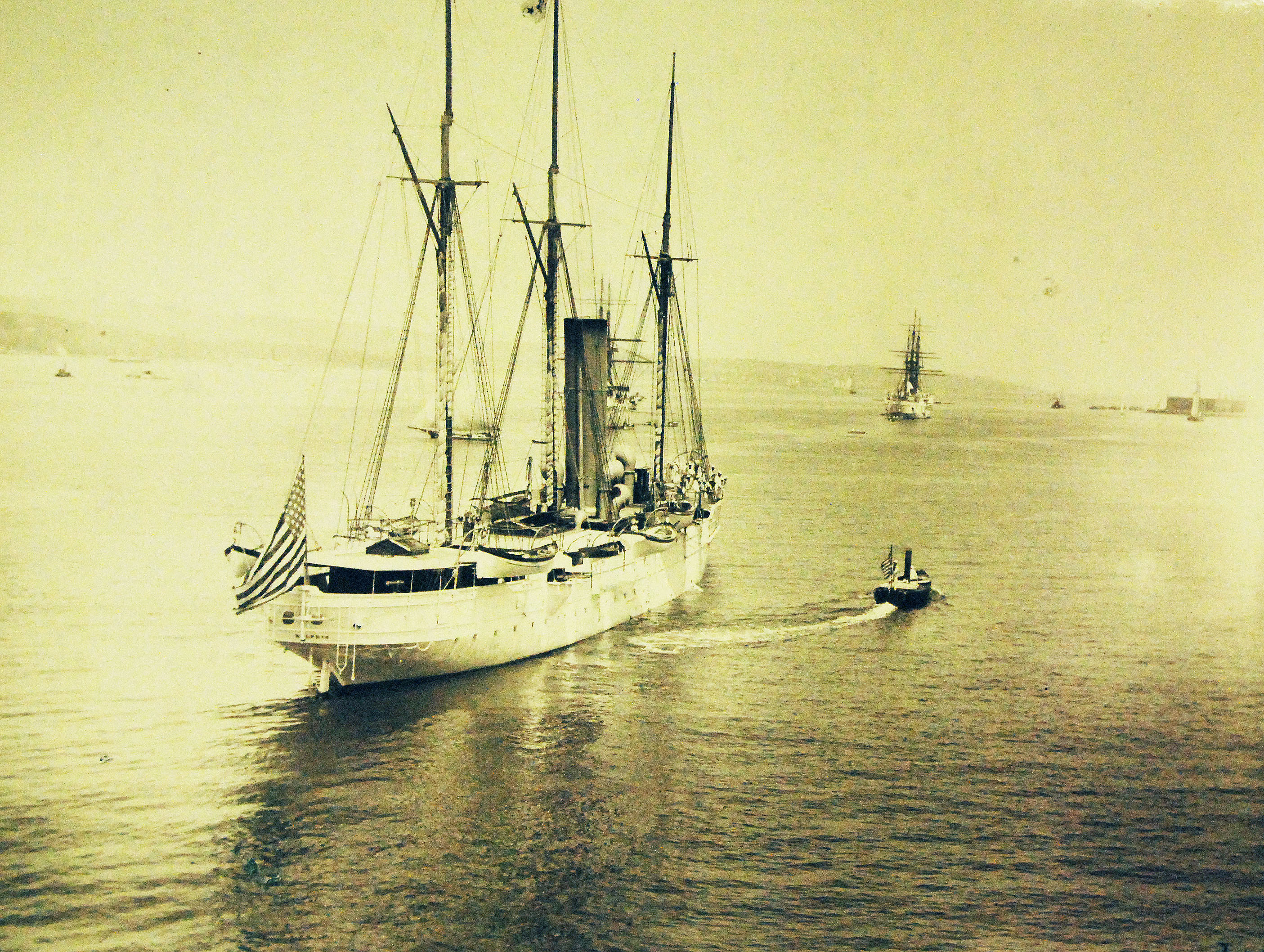 Lot 3000-L-9: U.S. Navy dispatch vessel, USS Dolphin, stern view. Dolphin was one of the first steel ships of the “New Navy.” Detroit Publishing Company, 1890-1912. Courtesy of the Library of Congress. (2016/03/25).